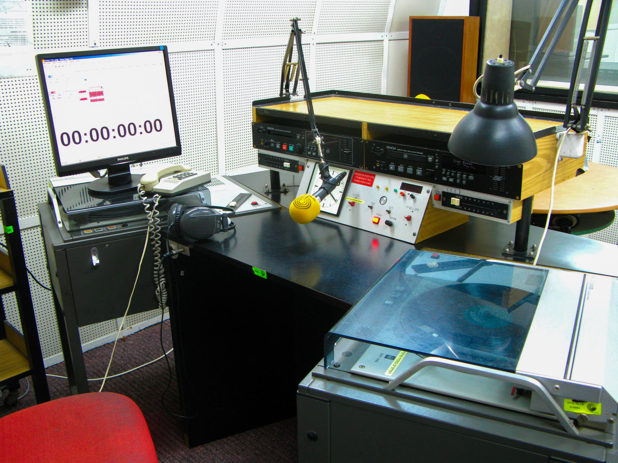 Israel broadcasting authority in Tel Aviv 2016 Underground Radio studio